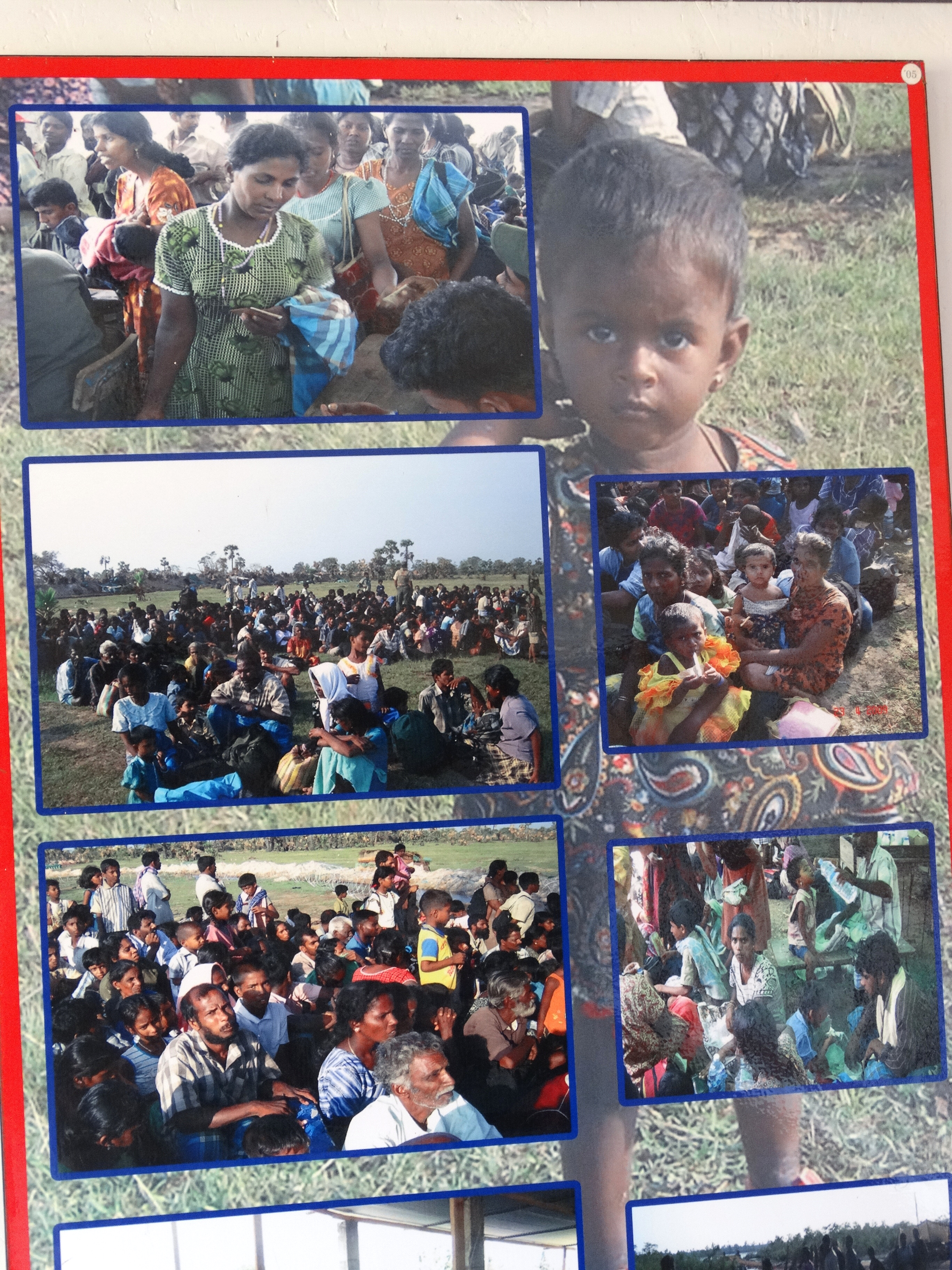 Images of Refugees Fleeing Final Sri Lankan Conquest of LTTE (Tamil Tigers) - May 2009 - Puthukudiyiruppu War Museum - Puthukudiyiruppu - Northern Province - Sri Lanka